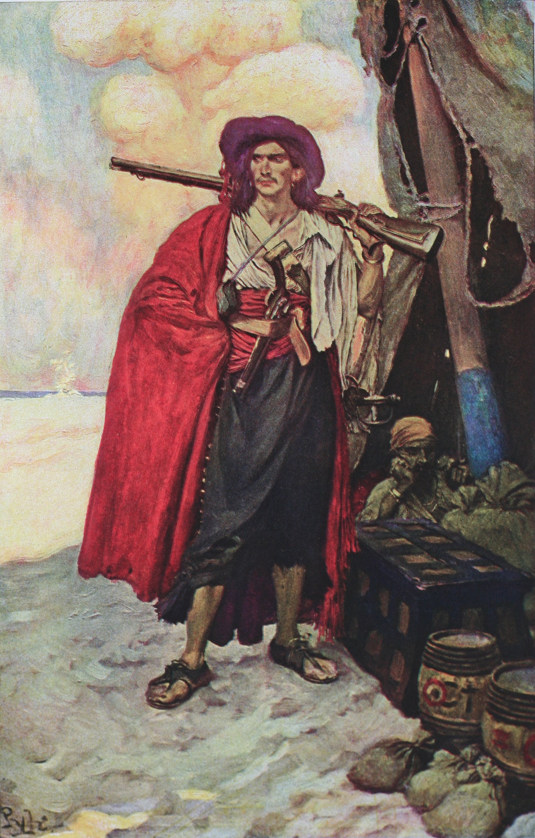 The Buccaneer was a Picturesque Fellow: illustration of a pirate, dressed to the nines in piracy attire. The oil painting, which the illustration was of, was sold in 1905 under the title The Buccaneer, and is currently part of the Delaware Art Museum's collection.[1]